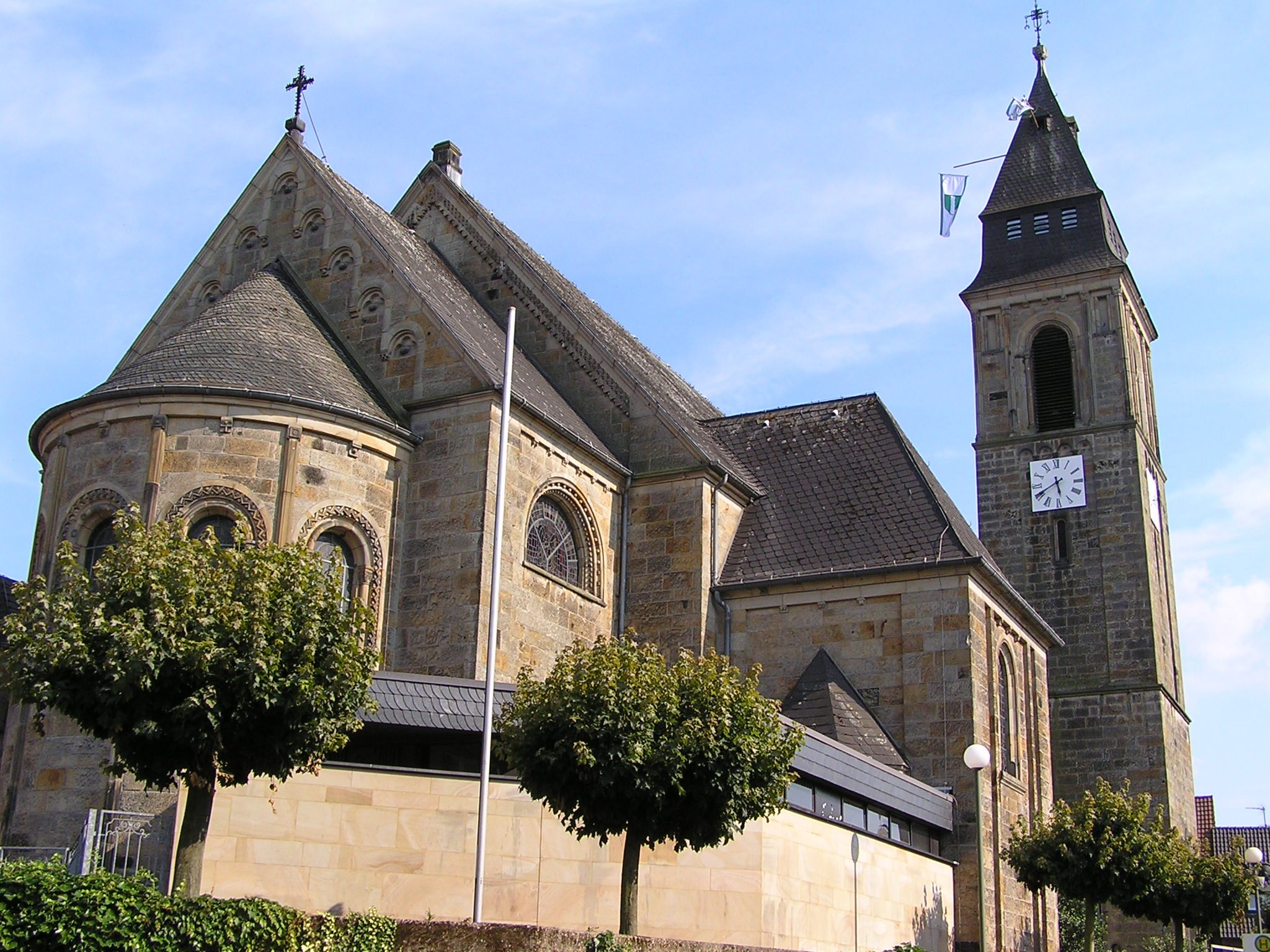 Church of St. Ludgerus in Schermbeck, Germany